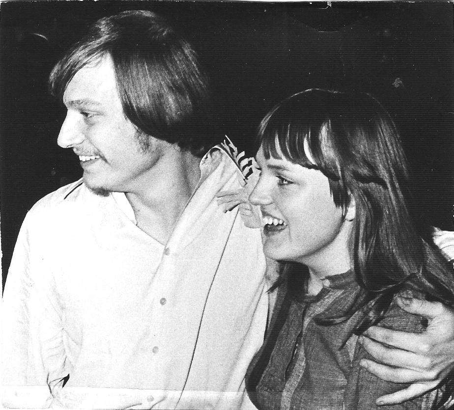 Uno og Birthe til firmafest!